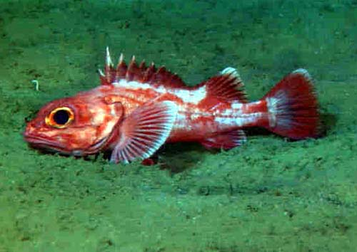 Longspine thornyhead rockfish (Sebastolobus altivelis)